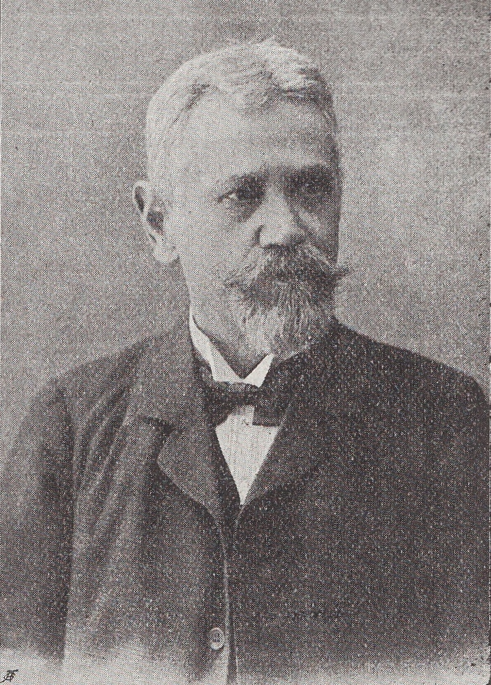 Mita Nešković, Serbian pedagogue. Taken from the 1908 edition of the Matica Srpska Calendar. Srpski (latinica): Mita Nešković, srpski pedagog. Preuzeto iz izdanja Kalendara Matice srpske za 1908. godinu.